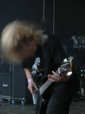 Decapitated, HunterFest, Szczytno, Plaża Miejska, 13.08.2006